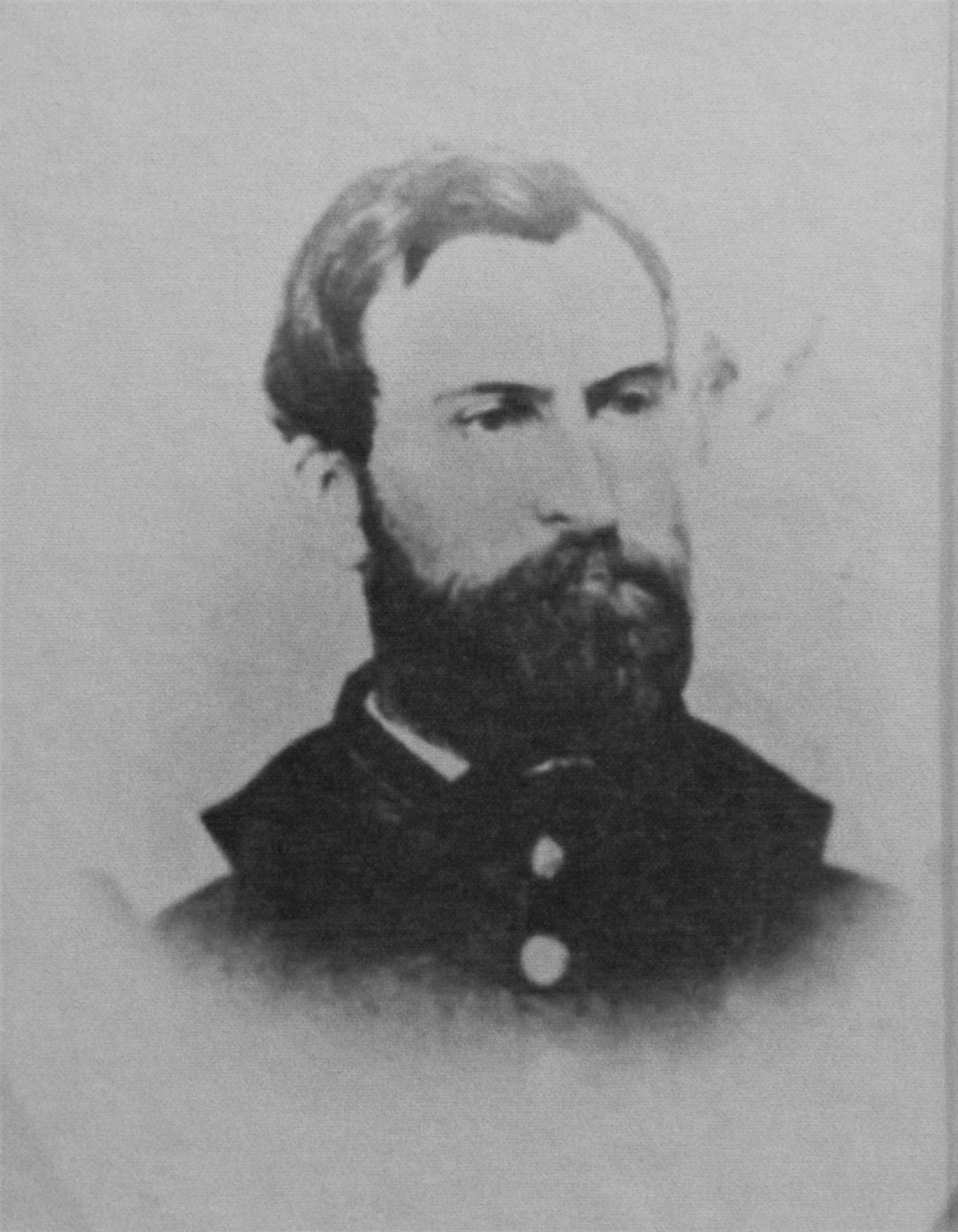 Sargent Elihu Harlam Mason, Union Army soldier and participant in the Great Locomotive Chase.